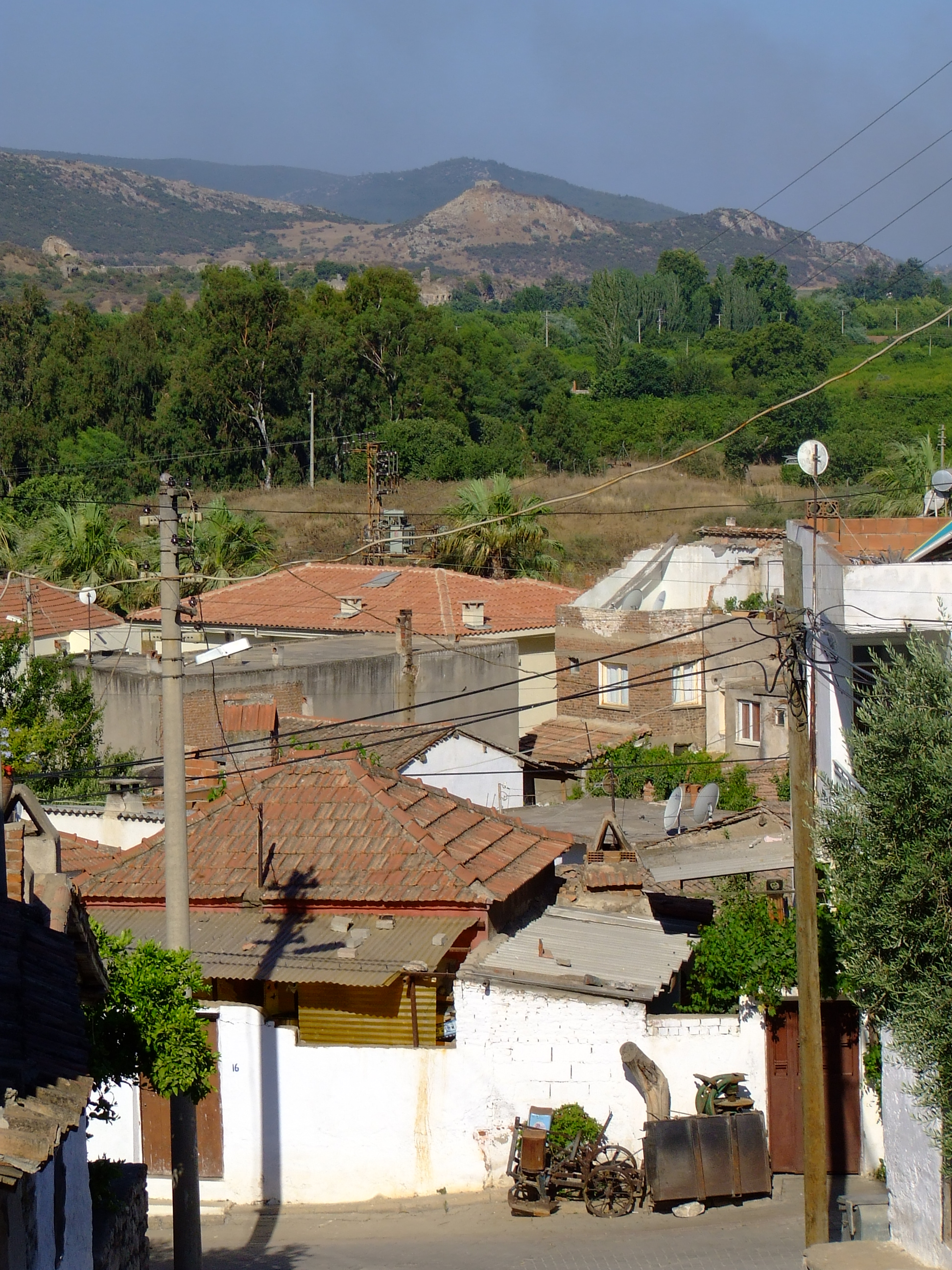 The town of Selcuk, Turkey in the foreground with mountains behind